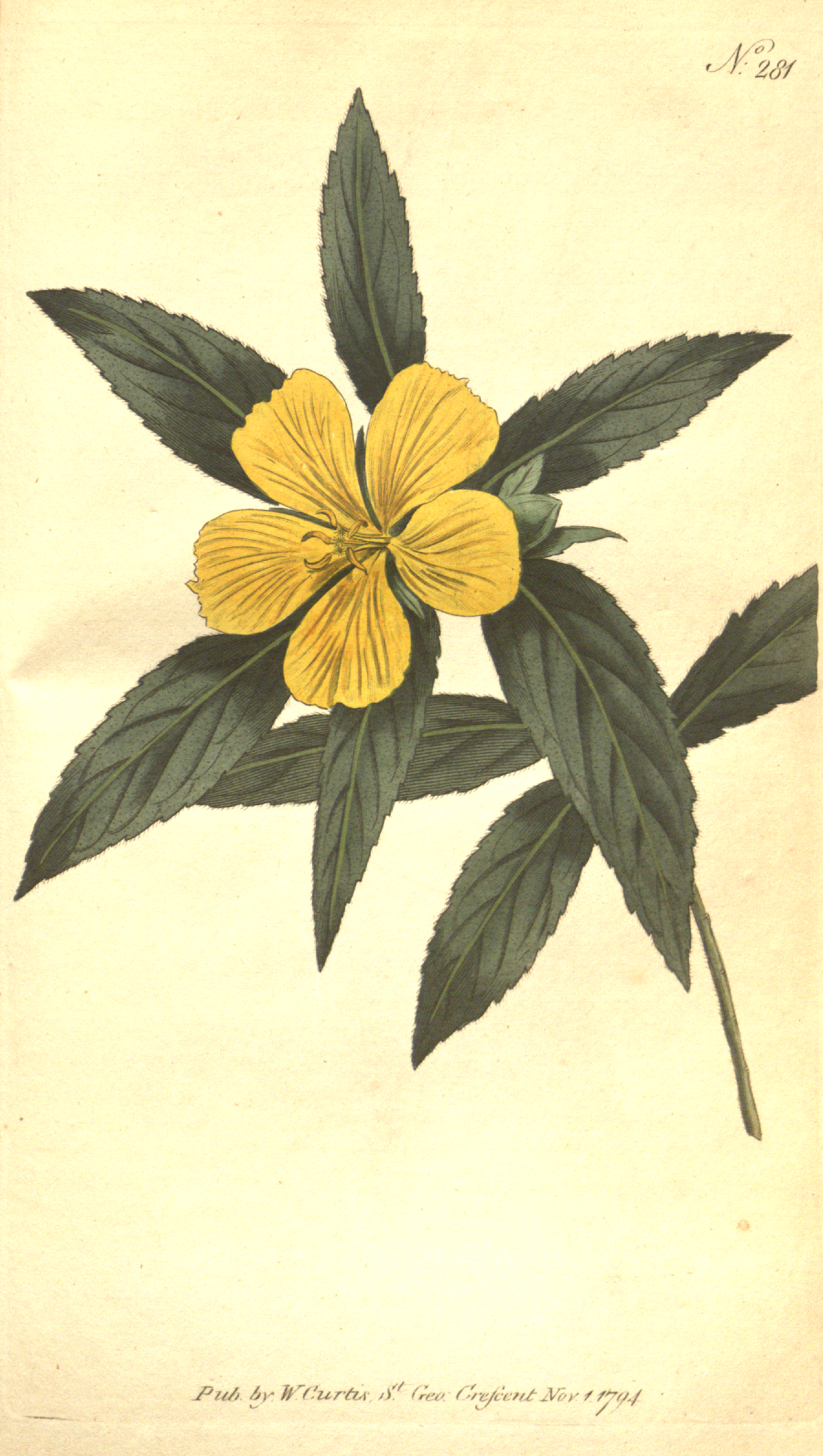 This is a plate from The Botanical Magazine, Volume 8.